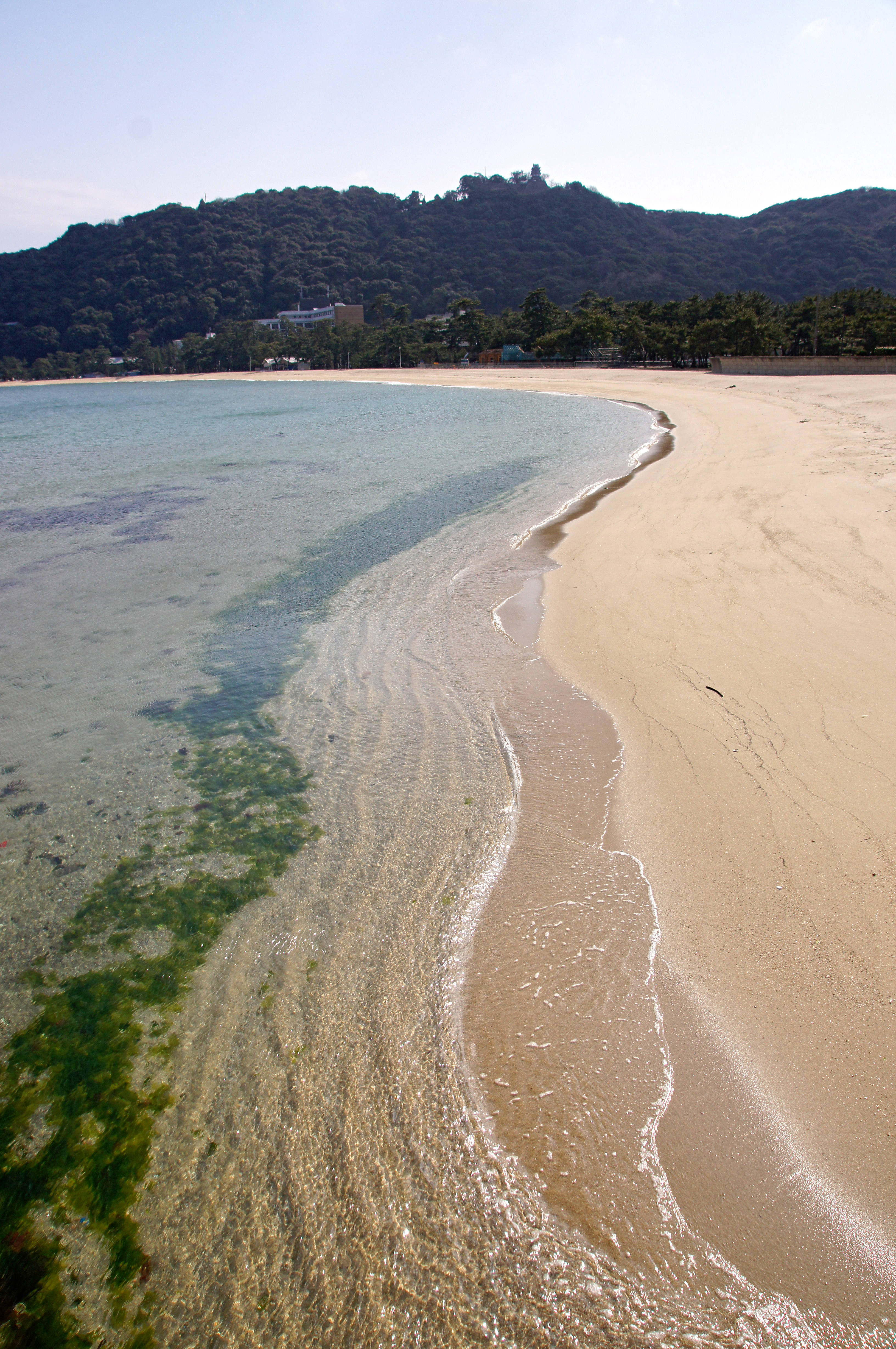 Ohama_Coast in Sumoto, Hyogo prefecture, Japan.